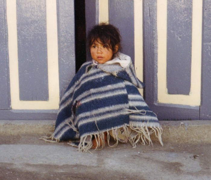 Girl wearing poncho, Alausi, Ecuador